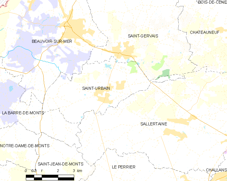 Map of French municipality Saint-Urbain